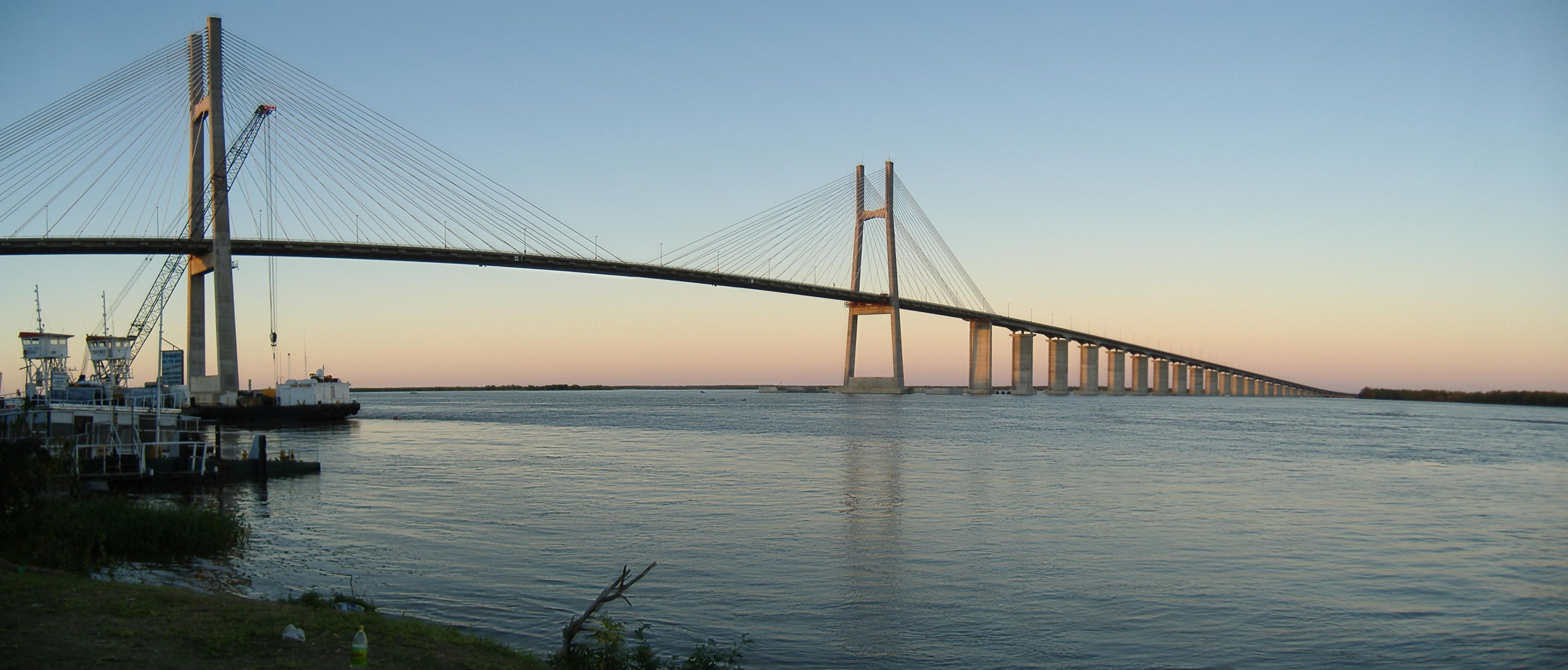 Rosario-Victoria Bridge, over the Paraná River (between the Argentine cities of Rosario and Victoria). Viewed from the western end of the bridge in Rosario.